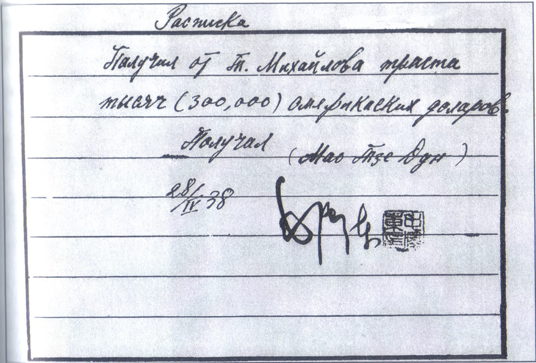 Receipt for US$300,000 received by Mao Zedong from Comrade Mikhailov